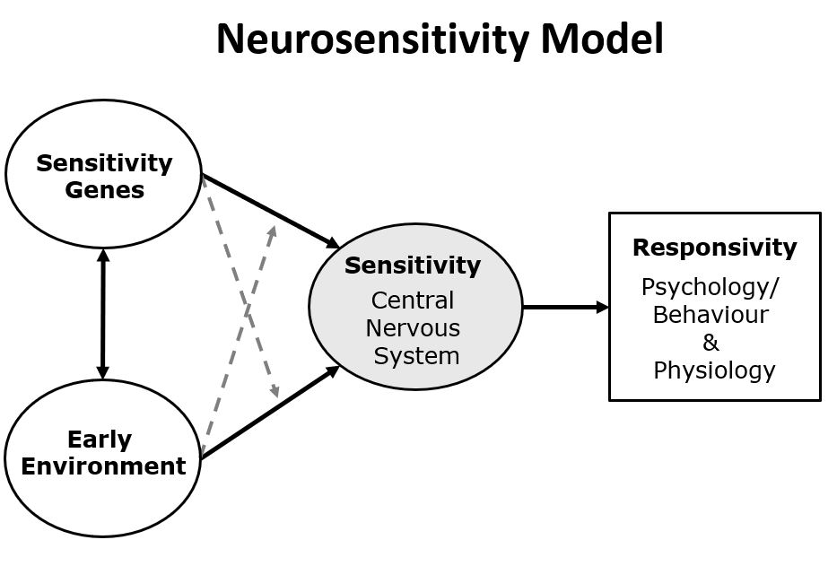 Figure 2. Illustration of the neurosensitivity hypothesis. Direct and interactive effects between sensitivity genes and environmental factors shape the sensitivity of the central nervous system. Heightened central nervous system sensitivity is then manifested in psychological/behavioral and physiological responsivity. Adapted from Figure 3 in “Individual Differences in Environmental Sensitivity,” by M. Pluess, 2015, Child Development Perspectives, 9, pp. 138 –143.